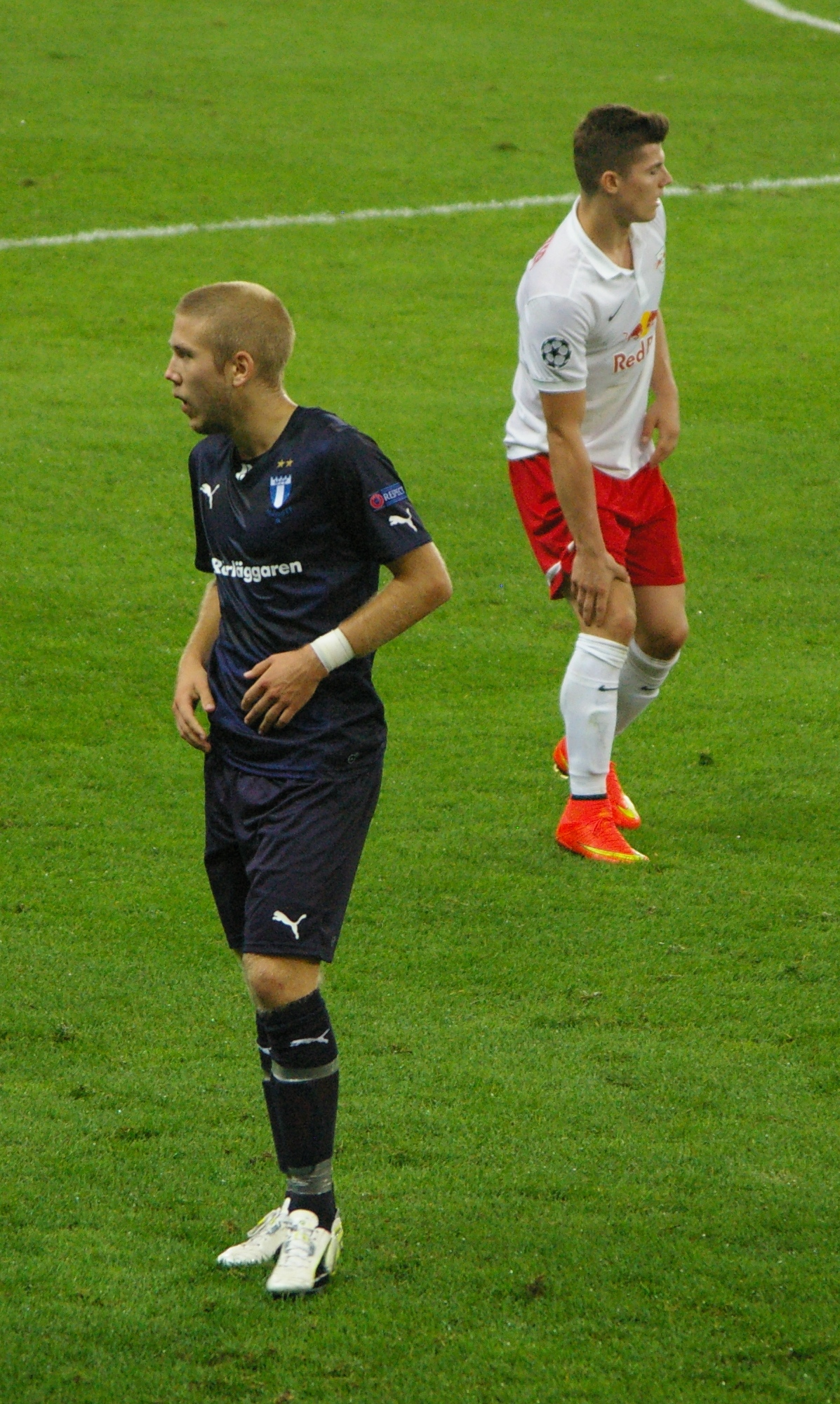 UEFA CL qualifier play-off